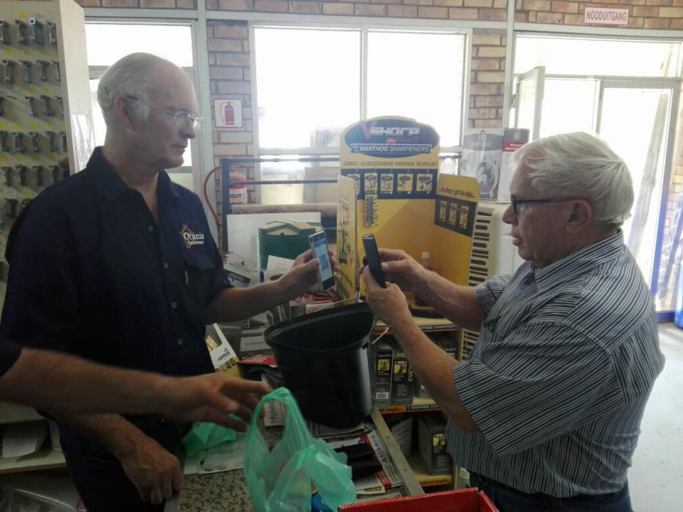 E-Ora payment in Orania hardware store